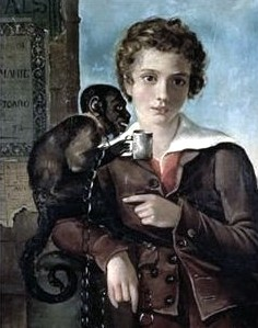 Portrait of Marius Petipa in the ballet "Diavolina", Brussels, 1827.